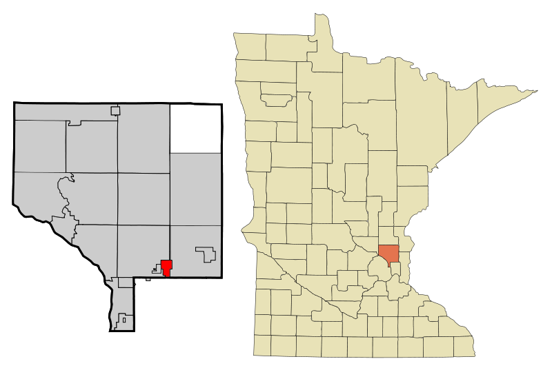 This map shows the incorporated and unincorporated areas in Anoka County, highlighting Circle Pines in red. This file has been updated to reflect the recent incorporation of new municipalities.